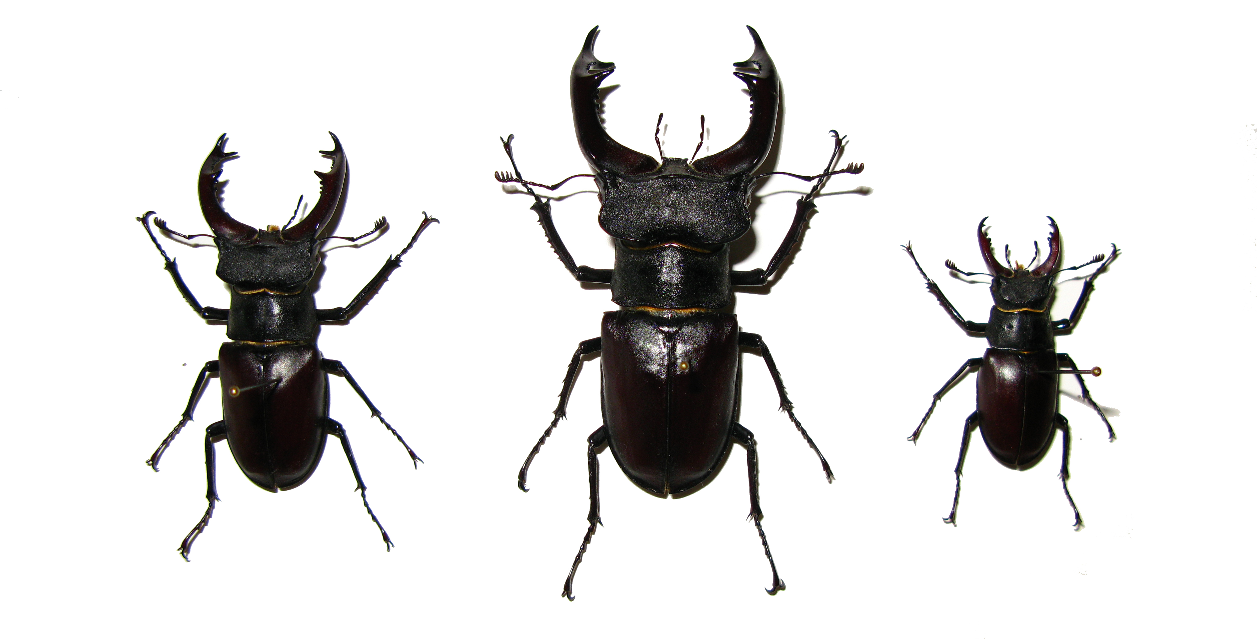 Lucanus cervus. f. media f. major f. minor